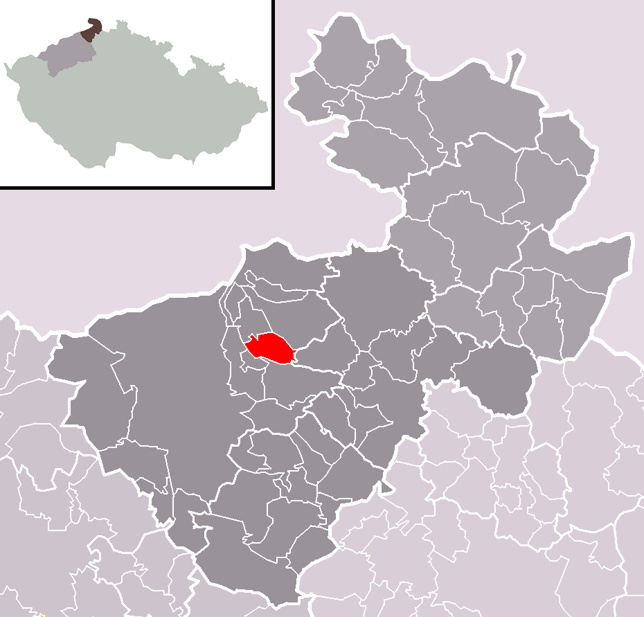 Location of Bynovec municipality within Děčín District and administrative area of Děčín as a Municipality with Extended Competence.